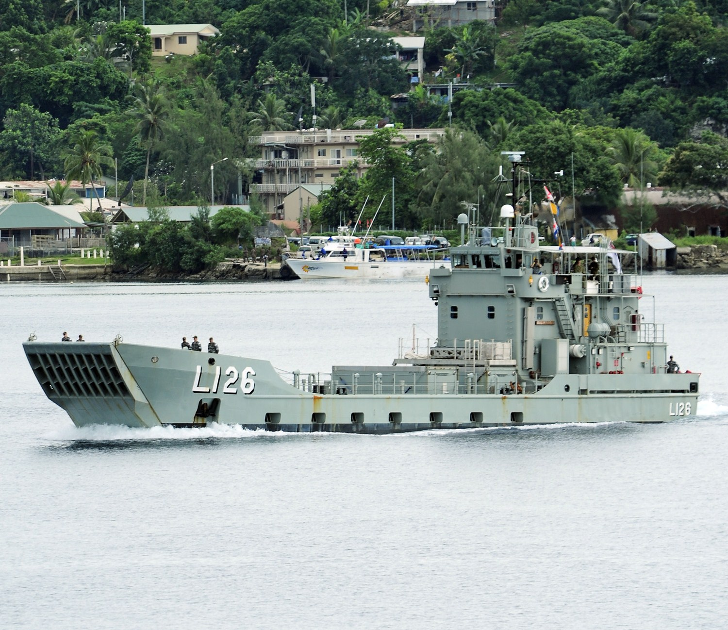 ESPIRITU SANTO, Vanuatu (April 28, 2011) Landing Craft Heavy (LCH) L126 HMAS Balikpapan transits through Segond Channel during Pacific Partnership 2011. Pacific Partnership is a five-month humanitarian assistance initiative that will make port visits to Tonga, Vanuatu, Papua New Guinea, Timor-Leste, and the Federated States of Micronesia. (U.S. Air Force photo by Tech. Sgt. Tony Tolley/Released)